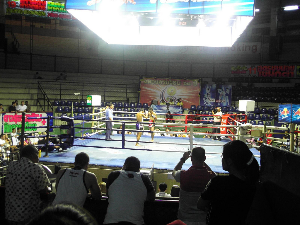 Rajadamnern Stadium, an indoor sports arena in Bangkok